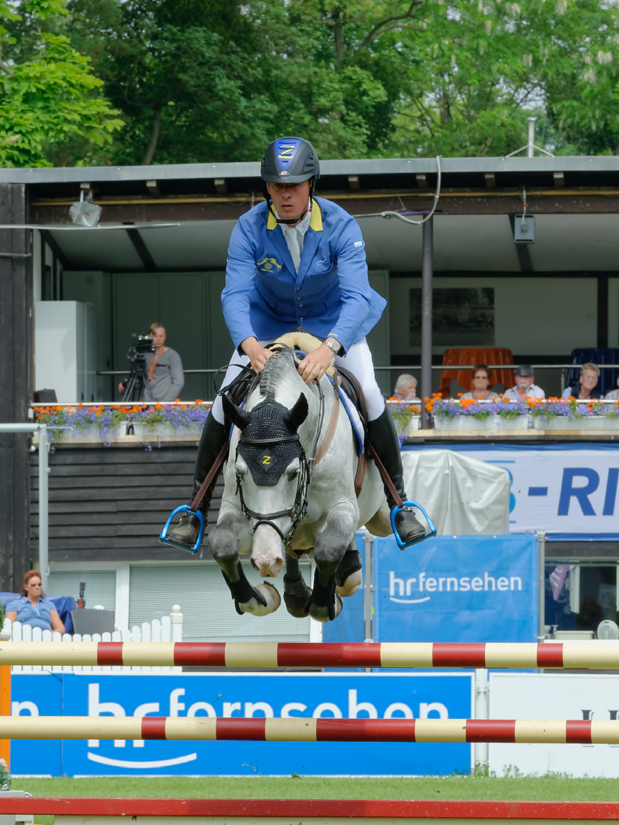 CSIYH* int. Springprüfung nach Strafpunkten und Zeit Internationales Pfingstturnier Wiesbaden 2015 The making of this document was supported by the Community-Budget of Wikimedia Germany.